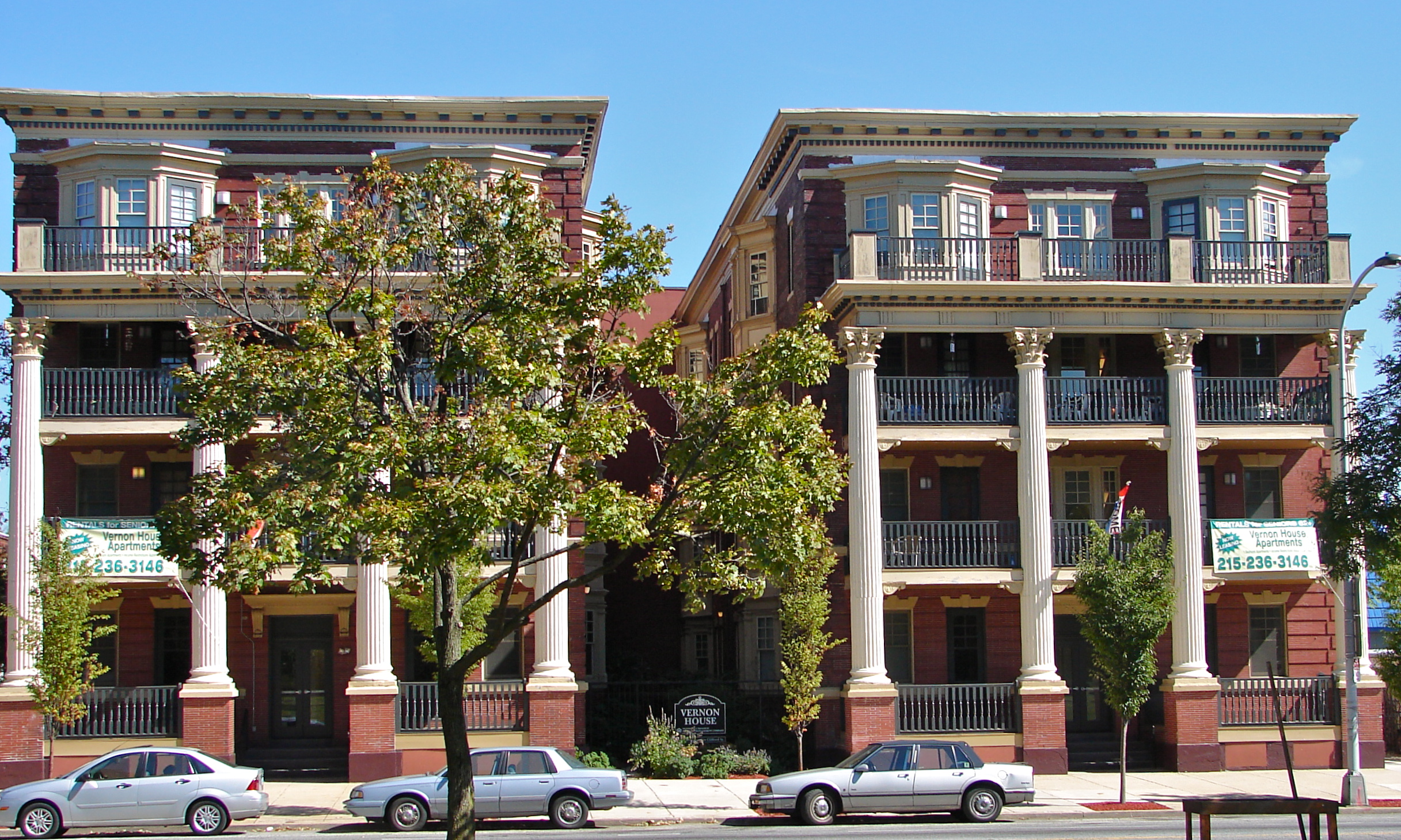 Plaza Apartments in Philadelphia on the NRHP since February 15, 2005. At 1719–1725 North 33rd St. and 3226–3228 Clifford St. (two buildings both facing 33rd) in the Strawberry Mansion neighborhood of North Philly. Across the street from Fairmount Park.